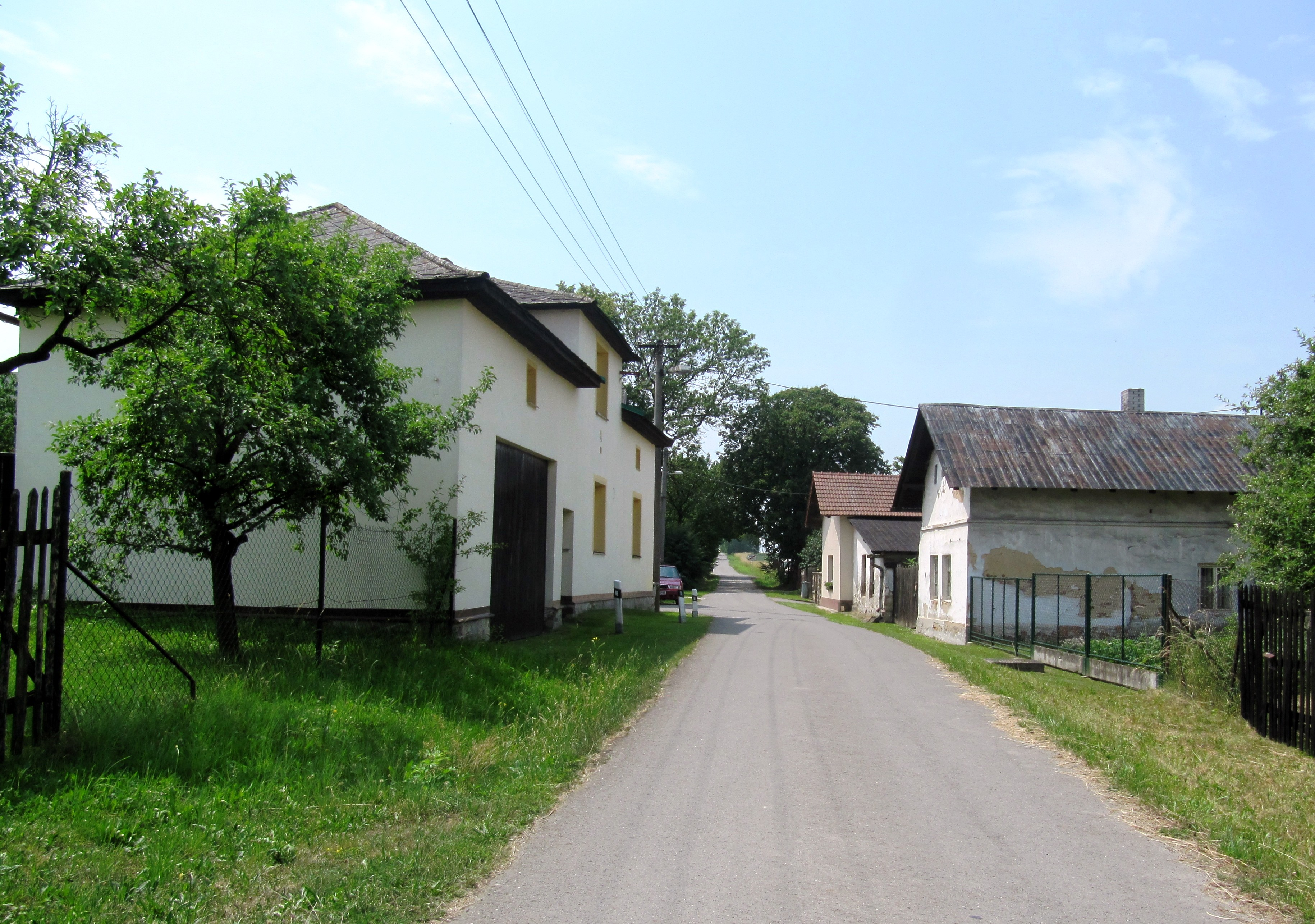 Olbramice, Ostrava-City District, Czech Republic, part Janovice.